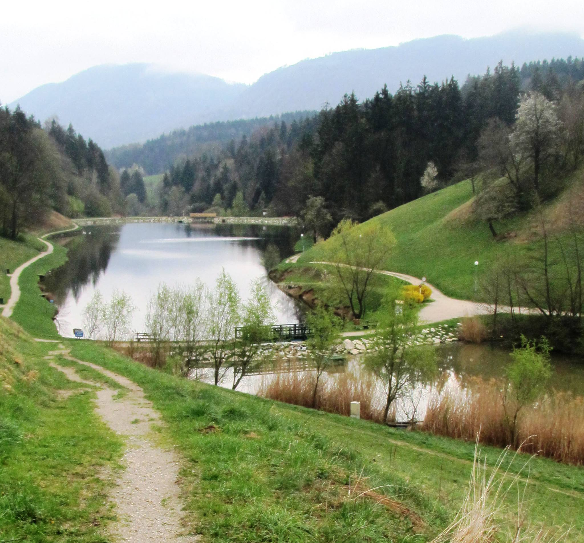 Osredek pri Zrečah, Municipality of Zreče, Slovenia: Lake Zreče (Slovene: Zreško jezero)